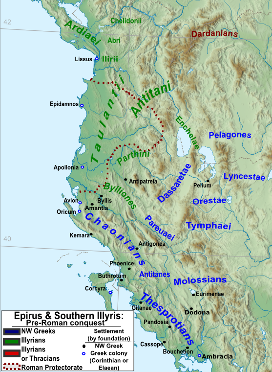 Map of northwestern Greeks and southern Illyrian tribes